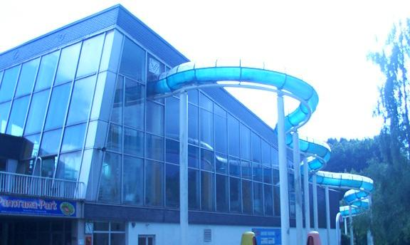 Indoor swimming pool in Olpe, former waterslide